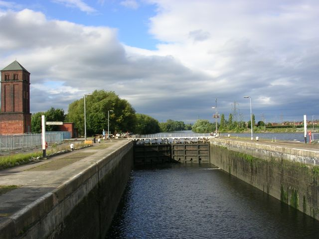 Irlam Locks. Irlam Locks on the Manchester Ship Canal. Looking in the Manchester bound direction.